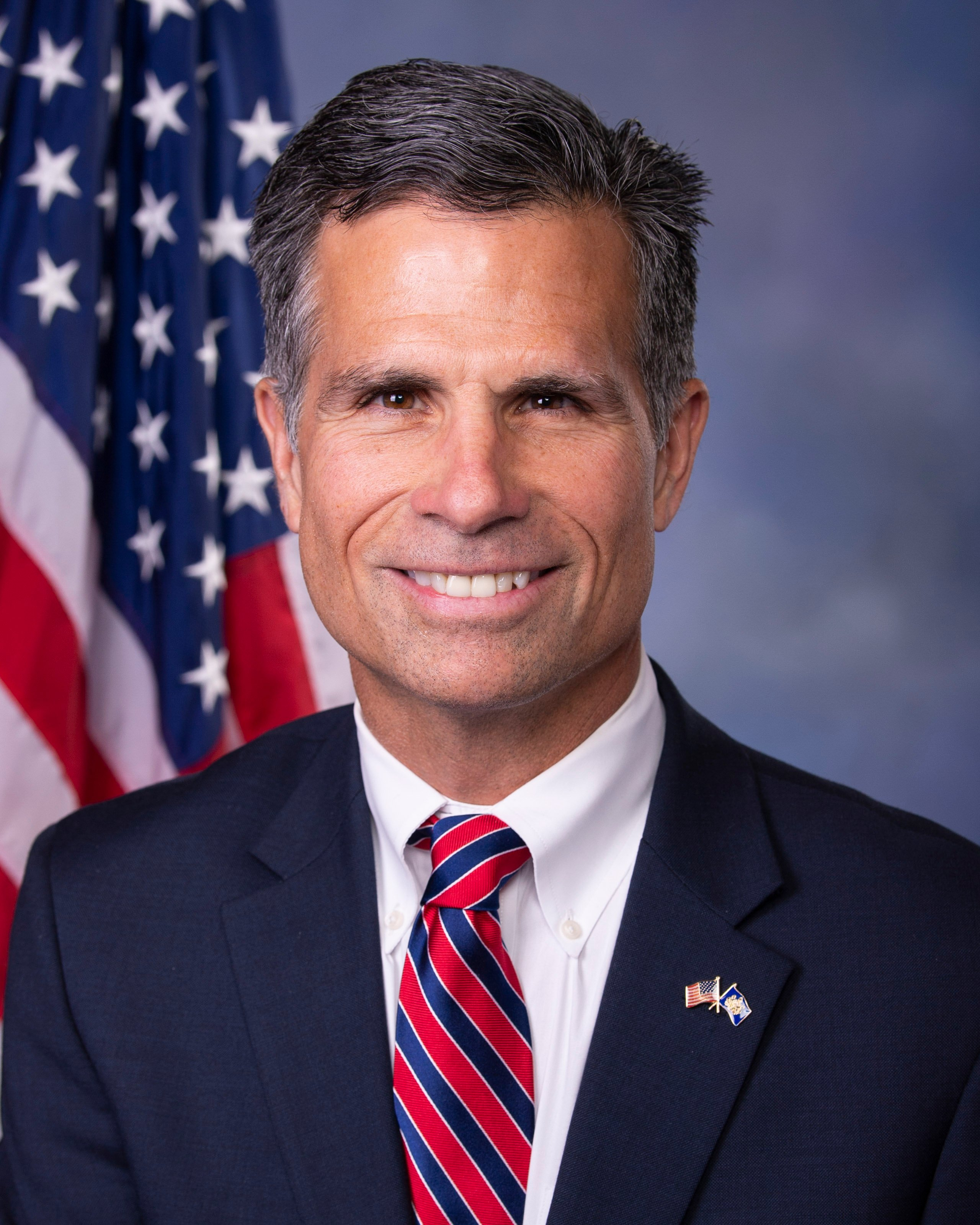 Official photo of freshman Rep. Dan Meuser of Pennsylvania's 9th district from the 116th Congress.